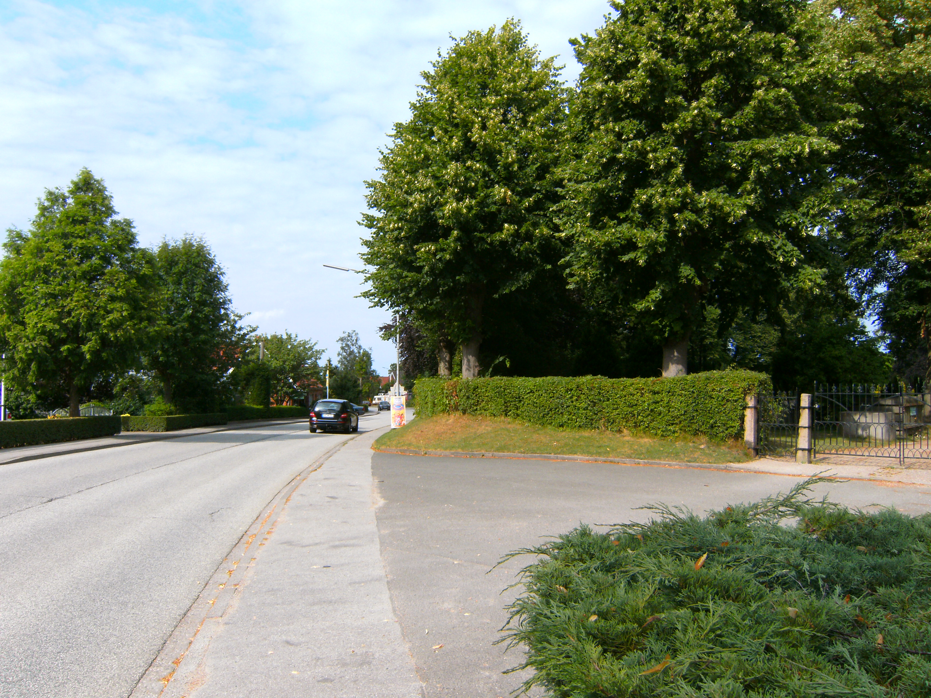 The graveyard of Grube (Holstein), Germany is at the street B 501 at the outskirts of the village: B 501, parking and entrance.